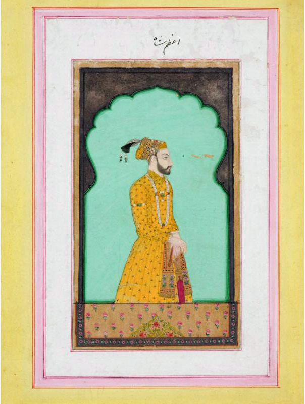 Object ID: 2007.37 Designation: The Mughal prince Azam Shah (1653-1707) Date: approx. 1670 Medium: Opaque watercolors, silver and gold on paper Style or Ware: Mughal Credit Line: Gift of Dr. and Mrs. David Buchanan Gift of Dr. and Mrs. David Buchanan On display: no Collection: PAINTING Dimensions: H. 8 1/4 in x W. 5 3/8 in, H. 21 cm x W. 13.3 cm (image) Department: SA